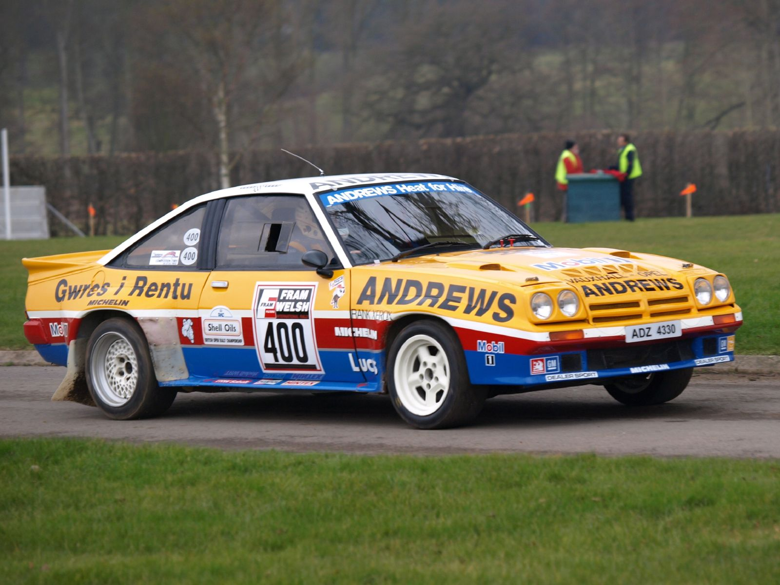 Russell Brookes' Opel Manta 400 driven at Race Retro 2008, the International Historic Motorsport Show, at Stoneleigh Park, Coventry, England.